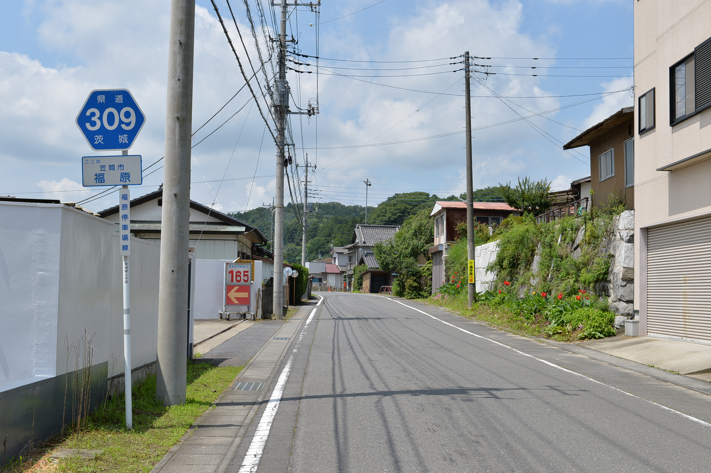 The Ibaraki Prefectural Road Route 309 near the Fukuhara Intersection